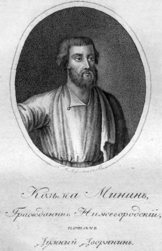 Kuzma Minin